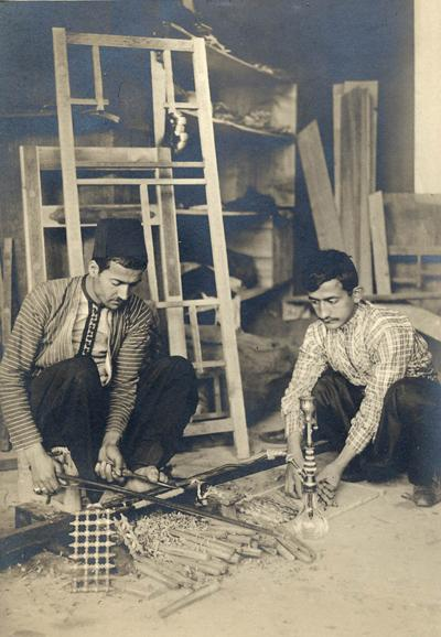 German photo post-card of the wood workers of Damascus,famous for their Mother of Pearl furniture,also called Damascus or Syrian Style,popular with decorators the world over.Jewish, Christian and Moslem craftsmen transmitted the centuries old art to the modern time.The craftsmen are turning small wooden spindles for traditional oriental wooden screens. A small part assembled piece can be seen in the foreground and a frame ready to accept the trellis work can be seen behind the workmen. The water pipe, widely used for leisurely smoke all over the Ottoman Empire domains, is for the craftsmen's recreational use.